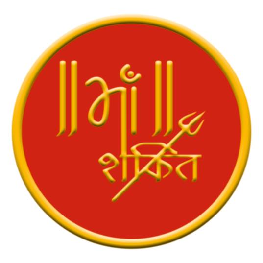 logo ma shakti garba